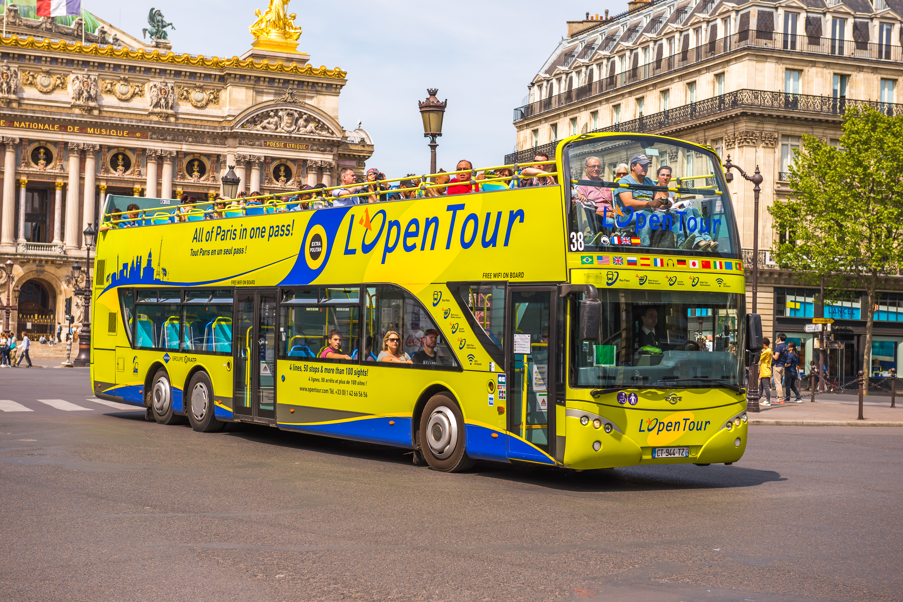 Ayats Bravo City 38 SELT, Navette Verte, Paris l'Open Tour Bus transport in Paris and Île-de-France.